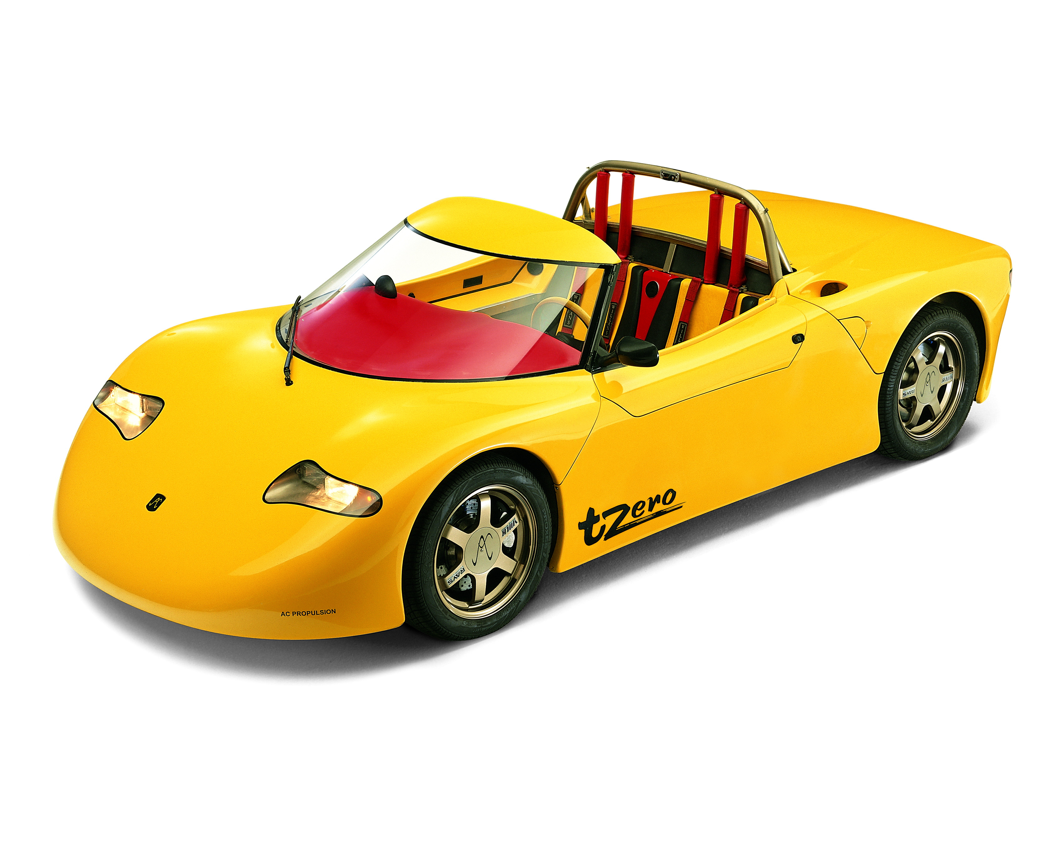 ACP tzero.Studio shot of tzero.